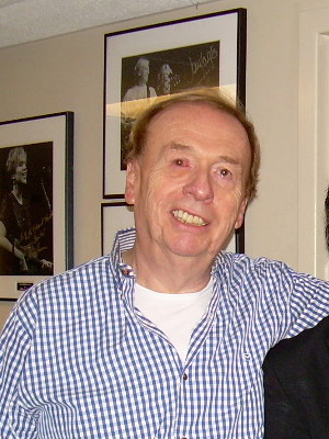 Geoff Emerick backstage at Sgt. Pepper Live Featuring Cheap Trick.